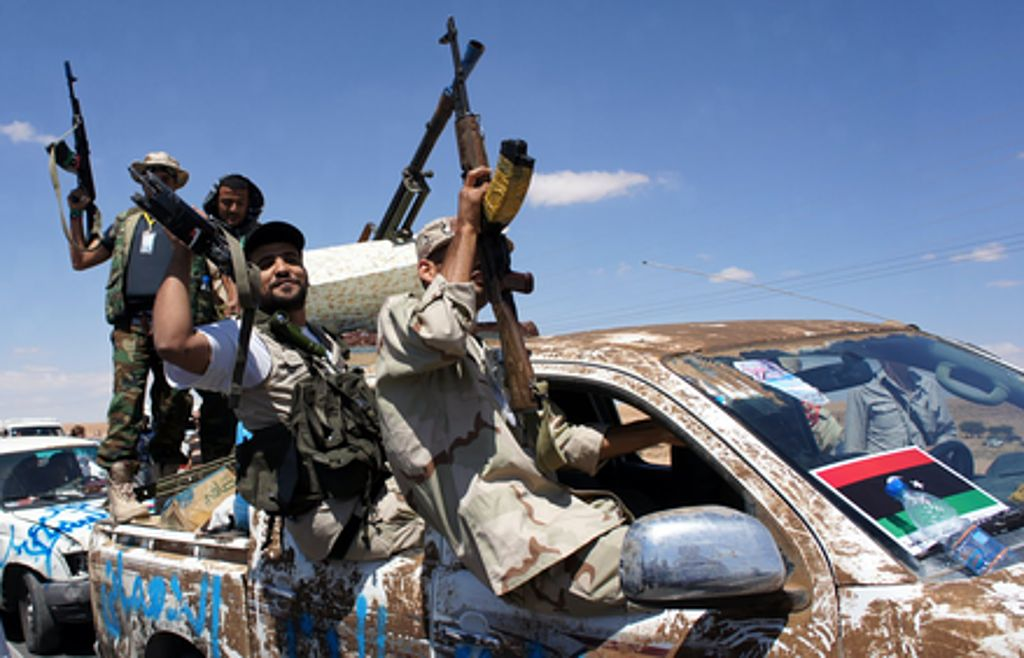 Fighters arrive from around the region to join the NTC push into Bani Walid, September 10, 2011. - E. Arrott